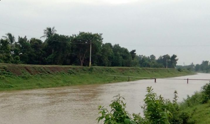 Kendrapara Canal flowing through Asureswar